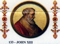 Portrait of Pope John XIII in the Basilica of Saint Paul Outside the Walls, Rome